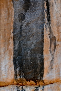 Water stains on rocks, Madagaskar, fot. Elżbieta Dzikowska